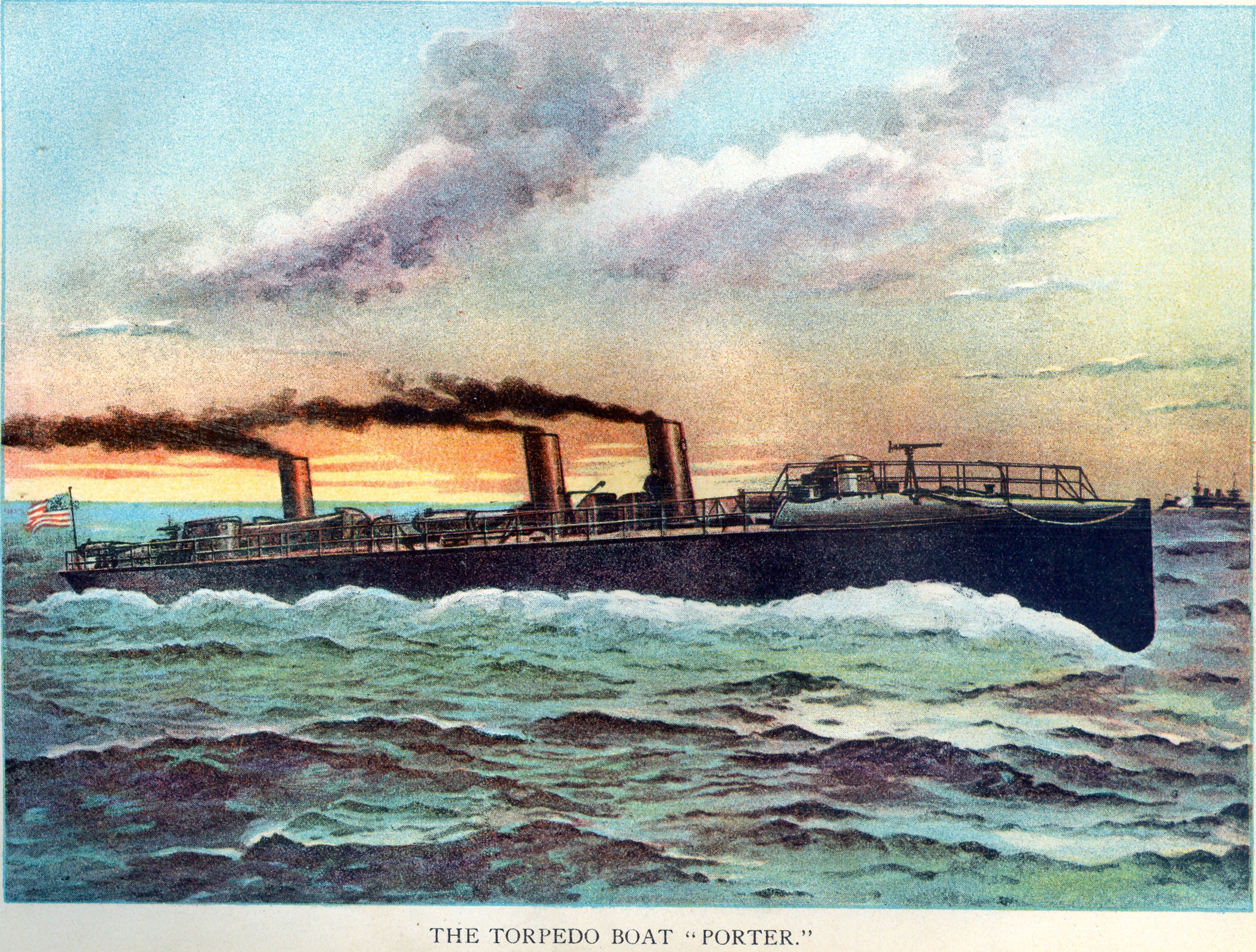 USS Porter 1898